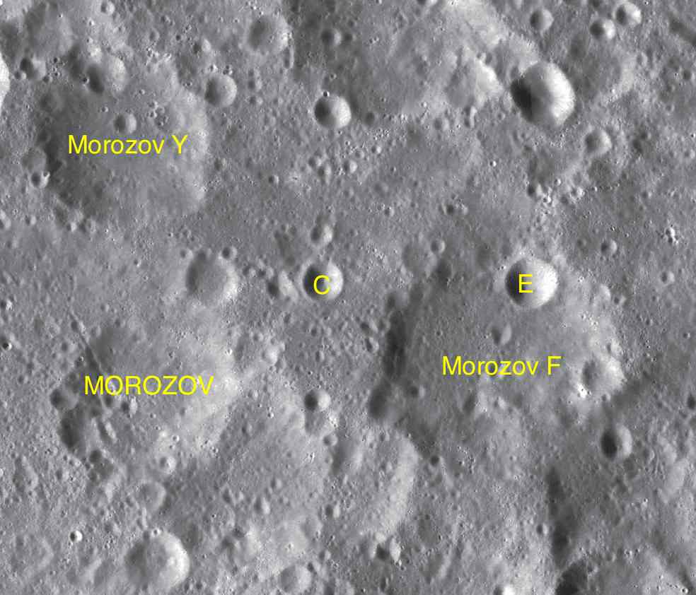 Parts of the charts LAC-65, LAC-66 used for the presentation